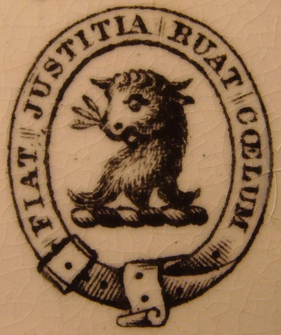 Photograph of the crest of the Drew family of Weymouth, Dorset, England. A bull with three strands of wheat in its mouth, surrounded by a belt with the motto "Fiat Justitia Ruat Cælum". On a china dish made about 1870.